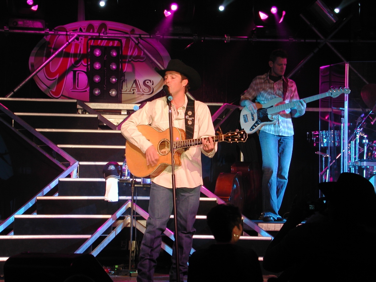 Clay Walker in performance